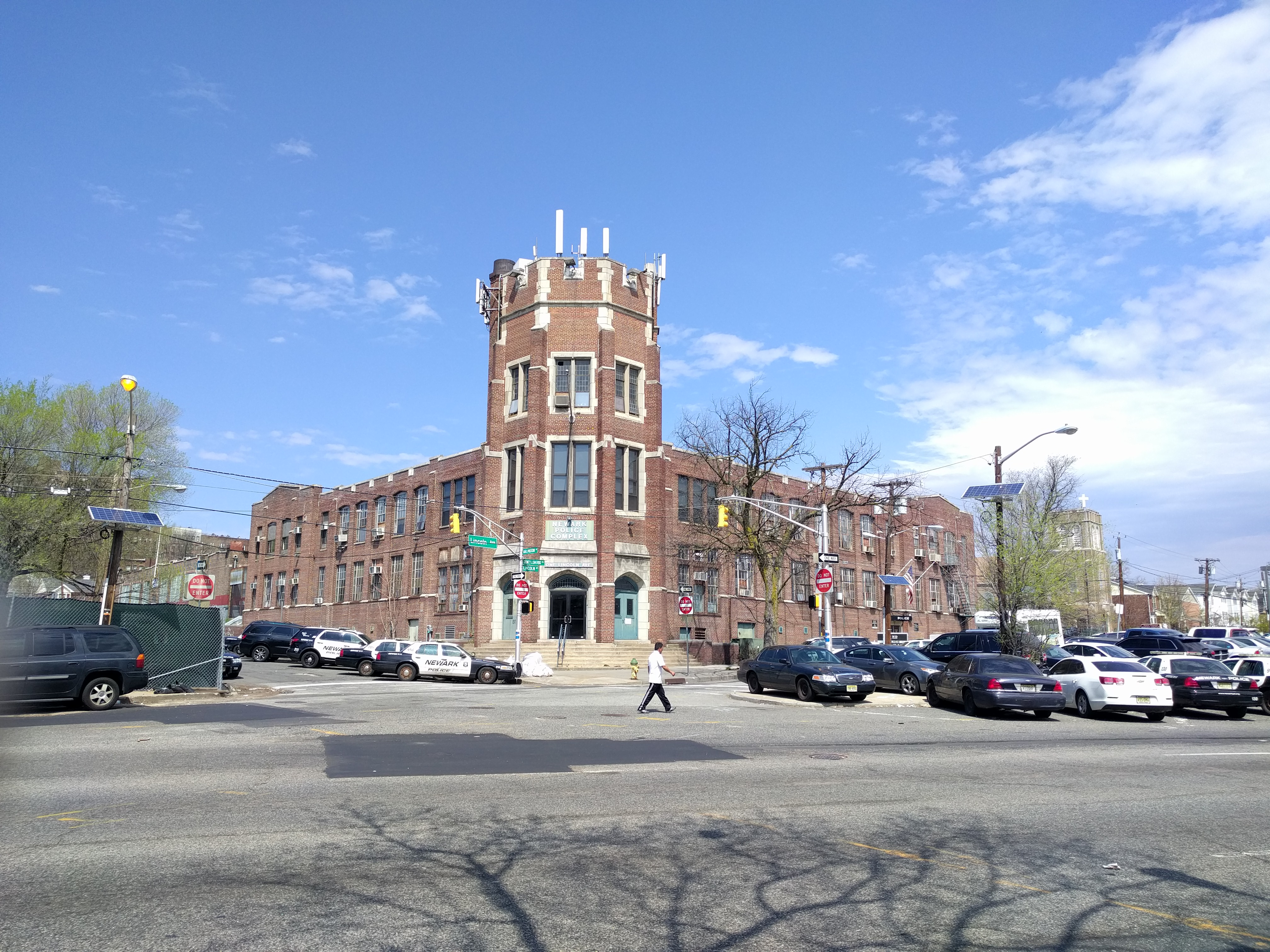 looking north across Broadway at Second Precinct on a sunny midday